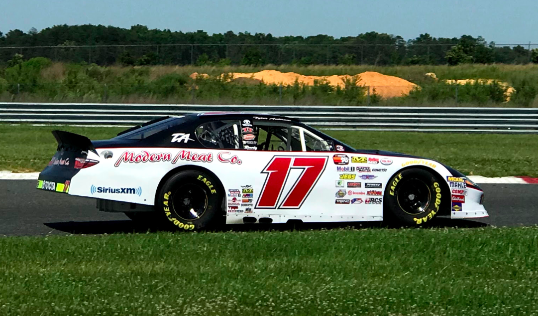 Tyler Ankrum on track at New Jersey Motorsports Park in 2018.